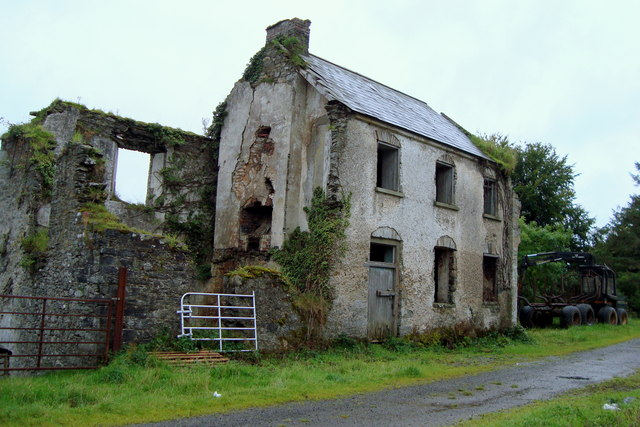 Ruins of Drumboe Castle Castle in its former glory